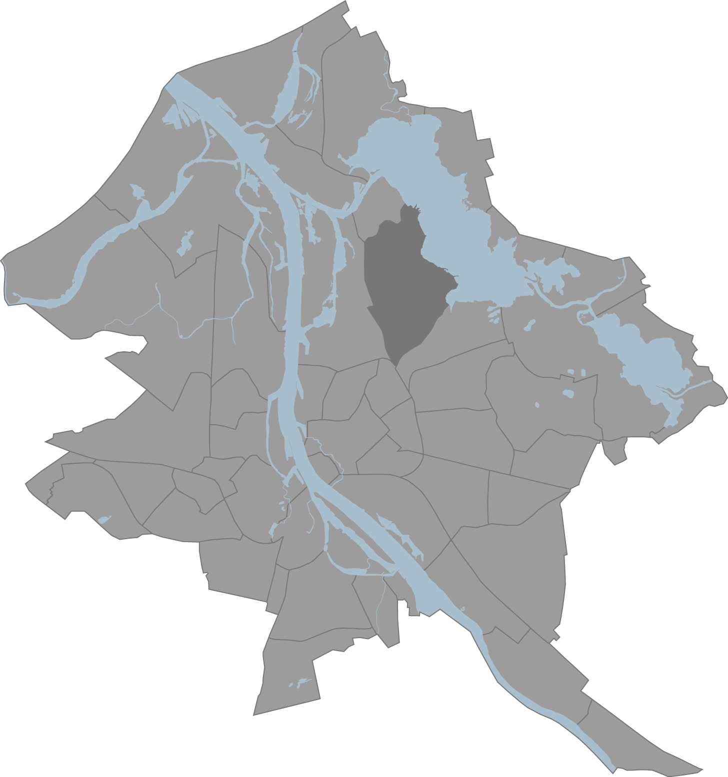 A map of Riga, Latvia with the eponymous commune highlighted